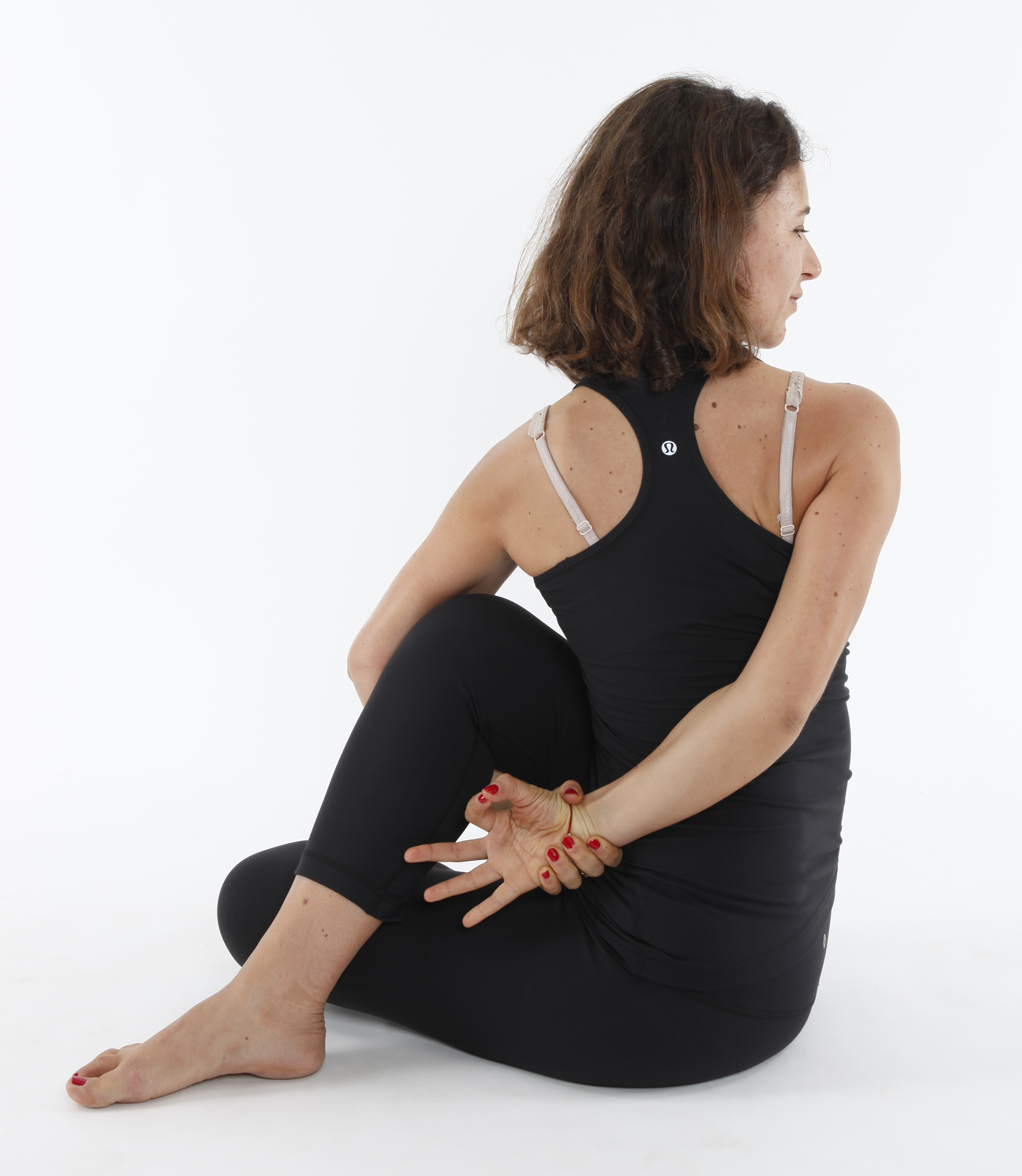 Ardha Matyendrasana - Half Lord of the Fishes Pose - Bound Arm Variation